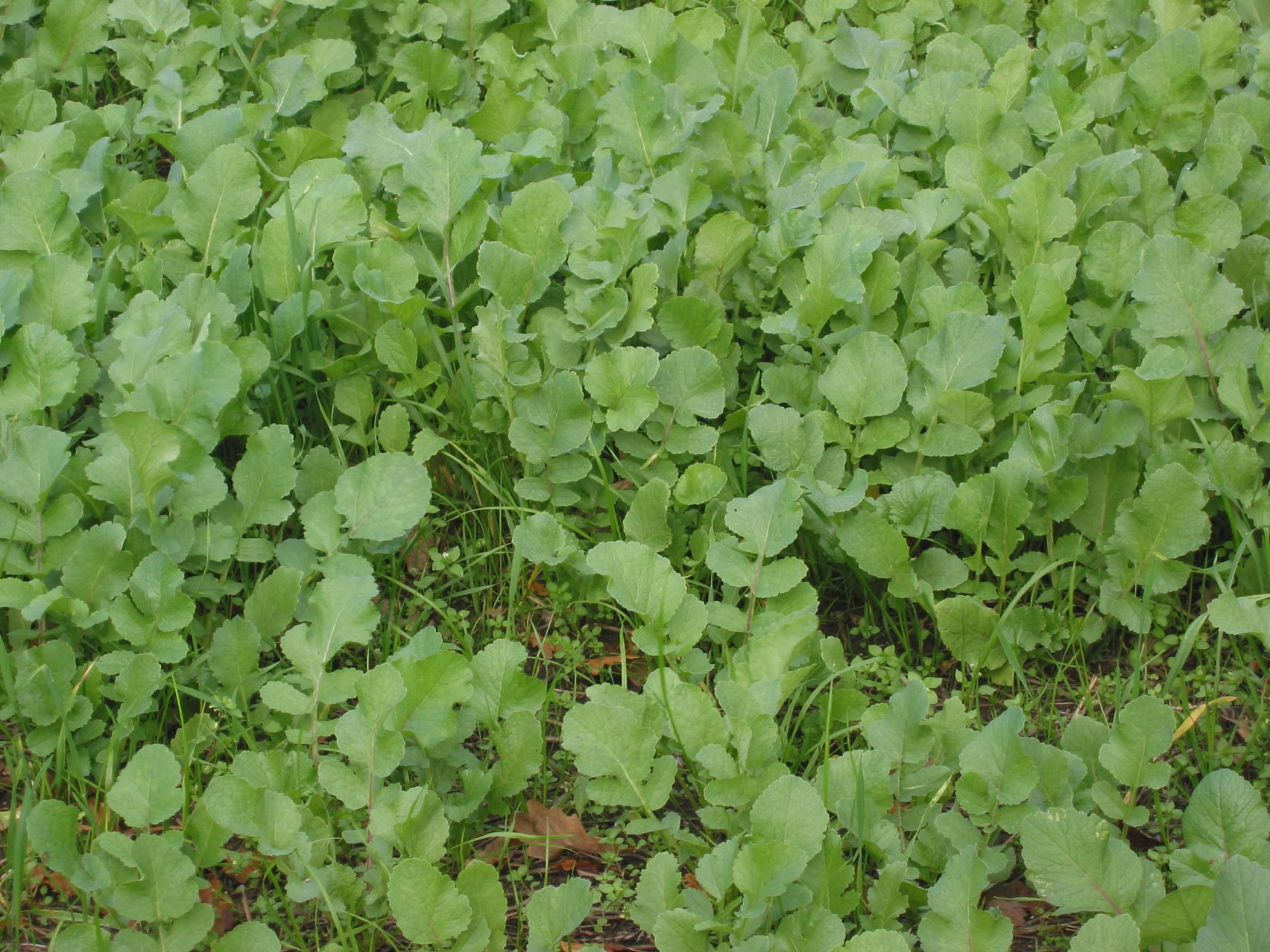 Raphanus sativus subsp. oleiferus as green manue